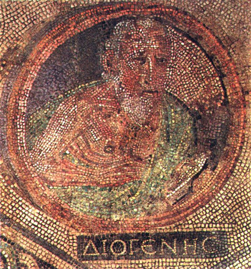 Mosaic of the Cynic philosopher Diogenes of Sinope sitting in his tub. From a Roman villa in Cologne, Germany; now in the Römisch-Germanisches Museum